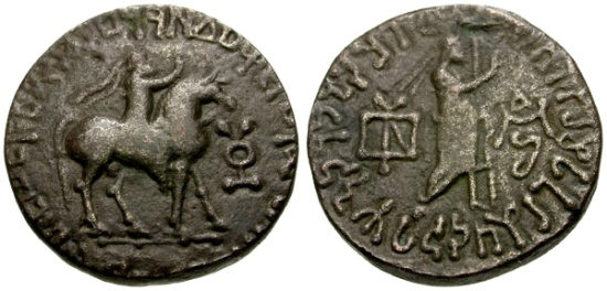 ABDAGASES